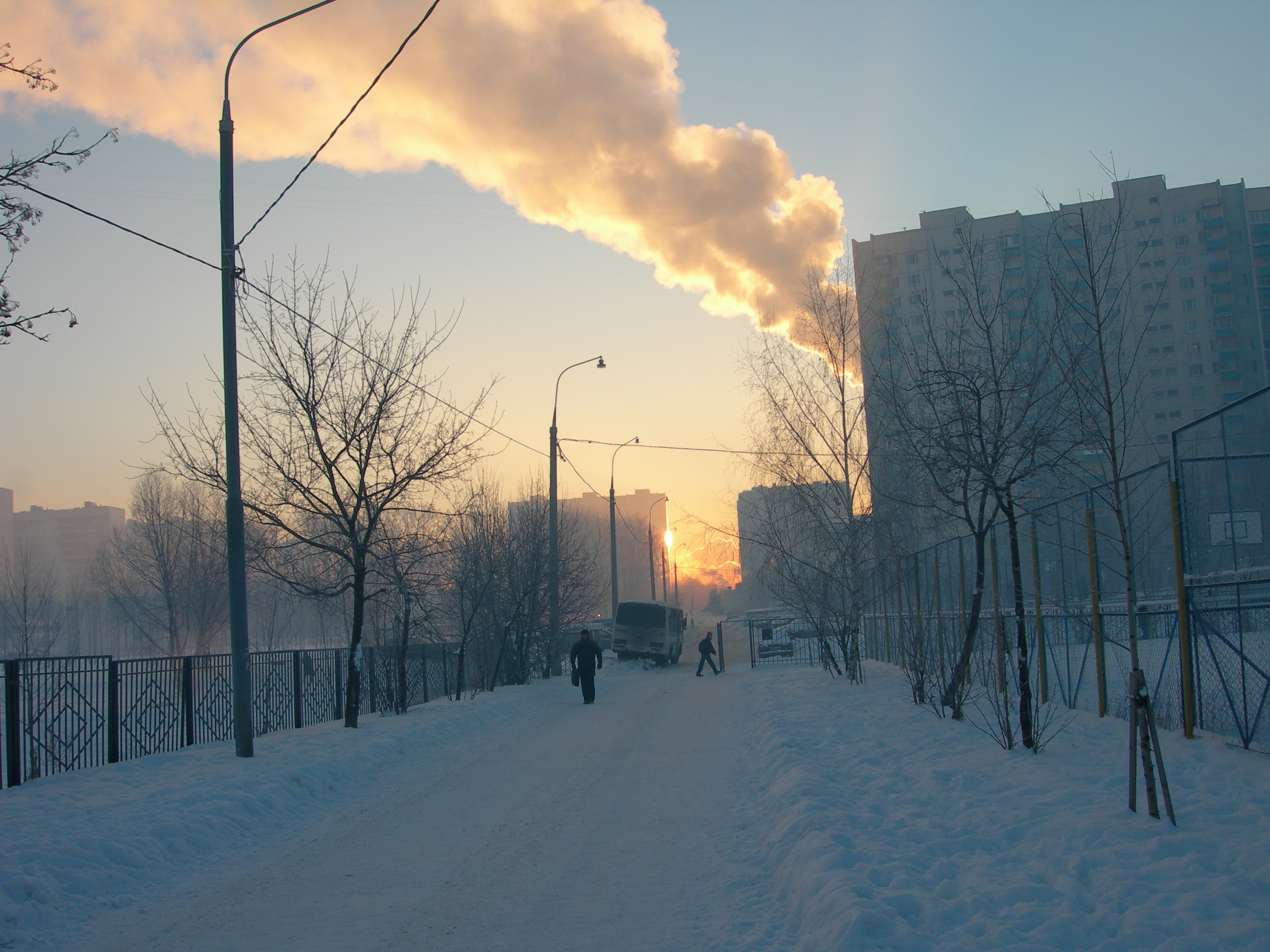 Sunny morning. Winter in Moscow #1